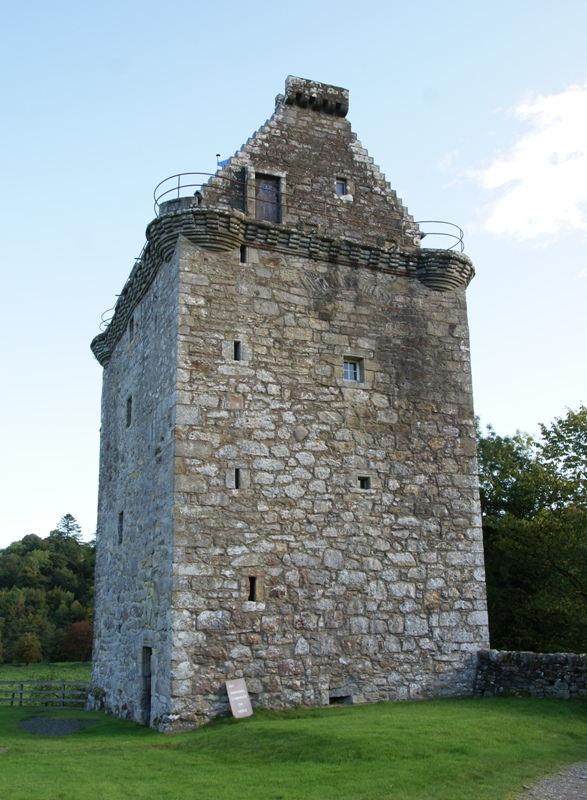 Gilnockie Tower, Dumfries and Galloway, Scotland.